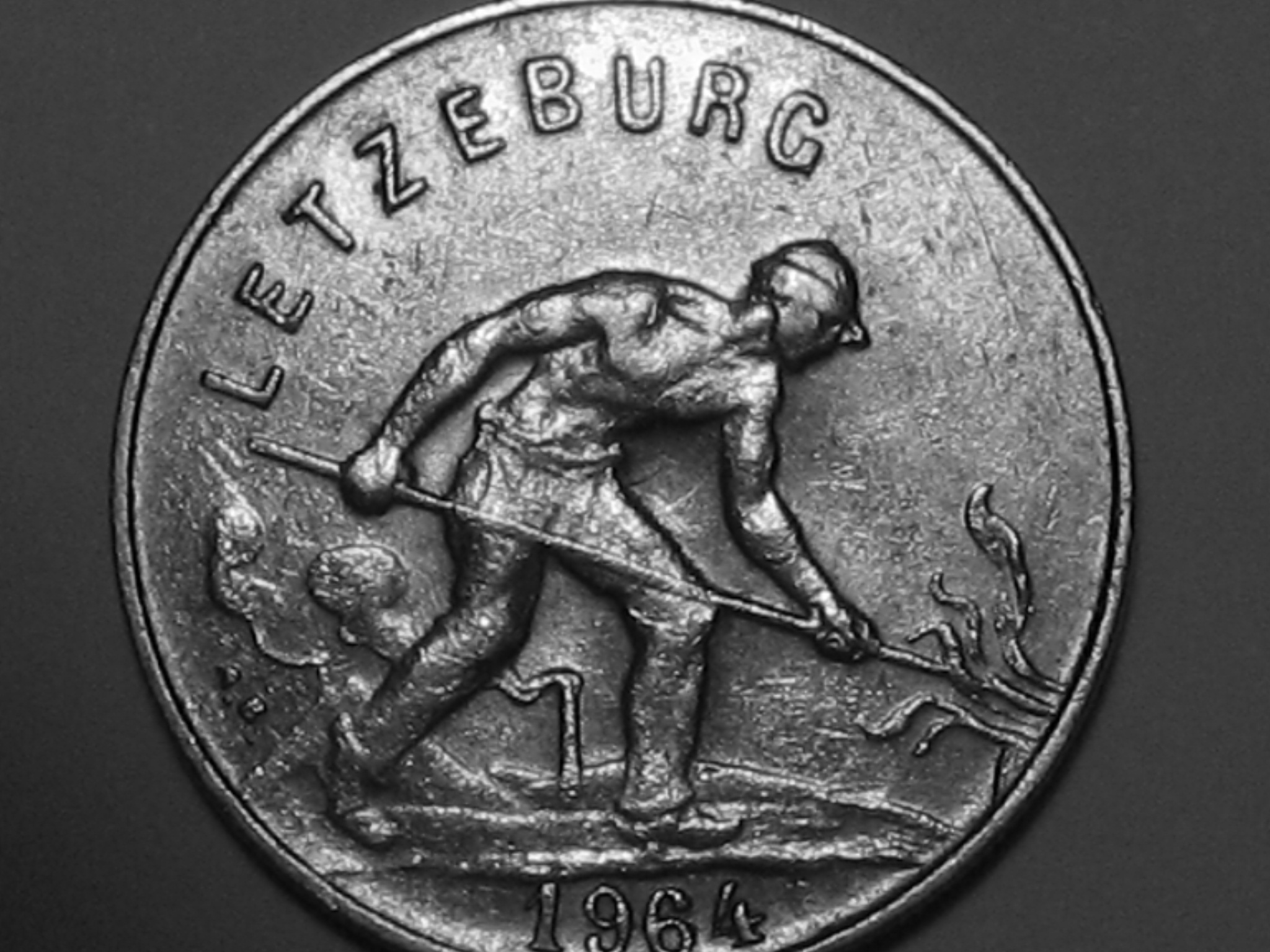 Revers of old Luxembourgish 1 Franc coin (series stopped in 1964, taken out of circulation in late 1980ies).